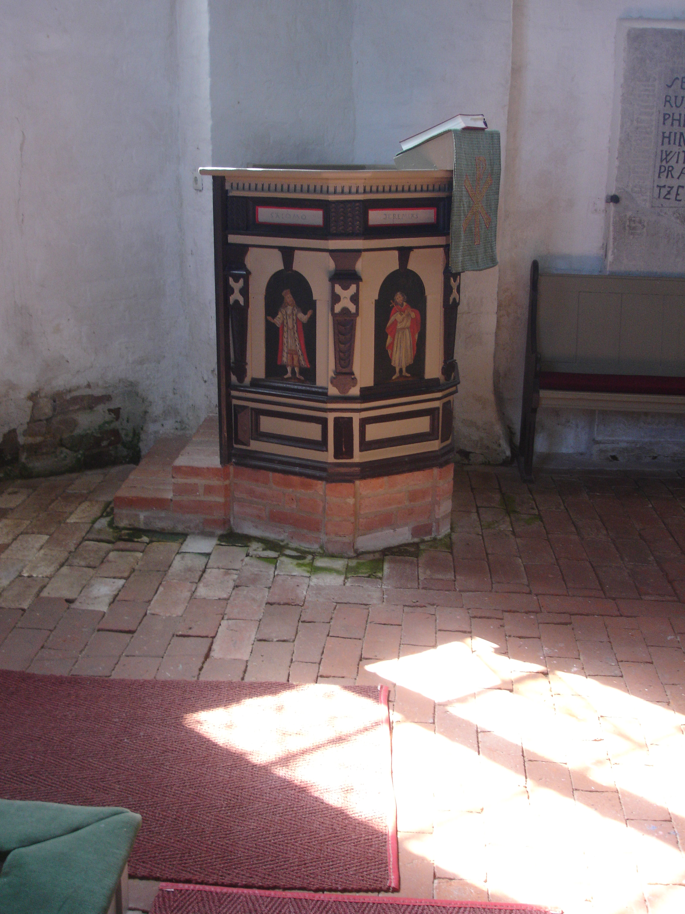 Church in Bössow, district Nordwestmecklenburg, Mecklenburg-Vorpommern, Germany